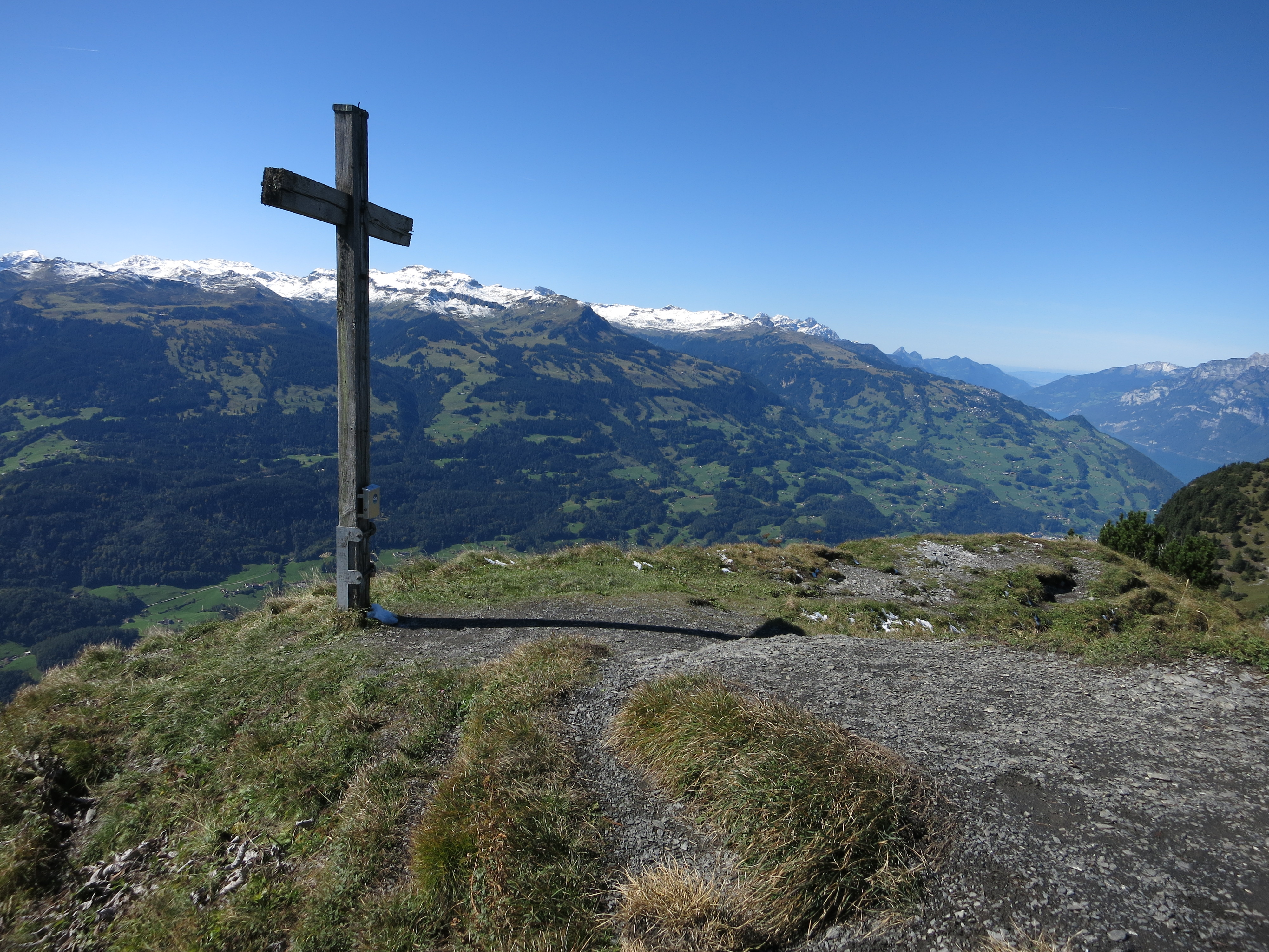 On top of mountain Gonzen, Switzerland